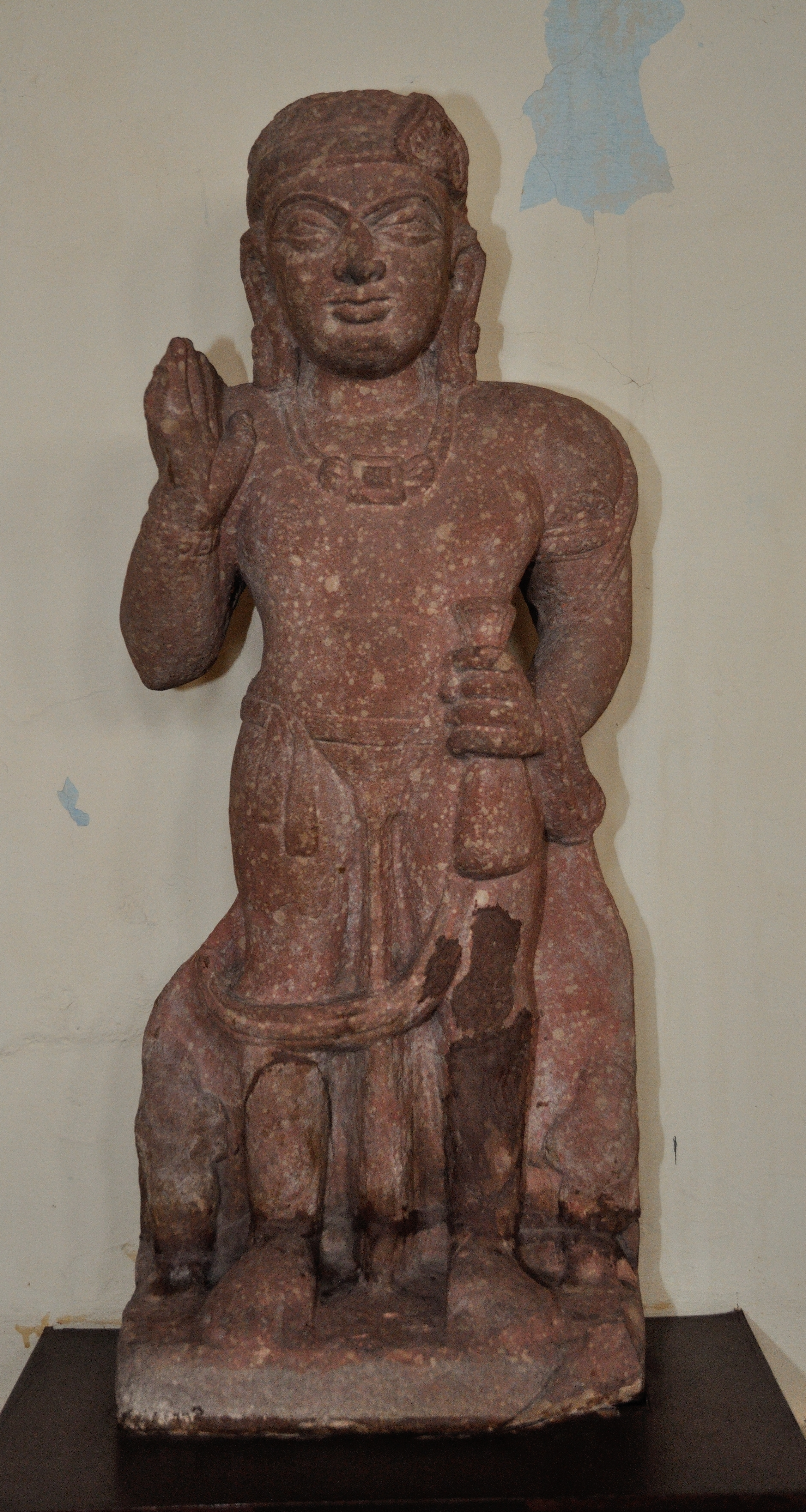 This artefact resides at the Government Museum, (hi: Rashtriya Sangrahalaya) formerly The Curzon Museum of Archaeology, Museum Road or Murari Lal Rajpal road, Dampier Nagar, Mathura, Uttar Pradesh, India. This museum is administrating by the State Government of Uttar Pradesh of India.